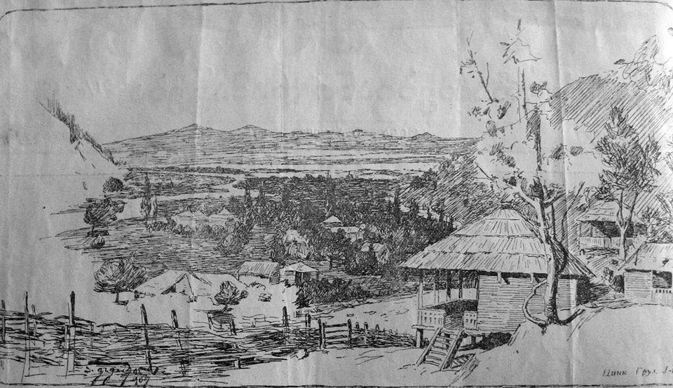 Village Vakidjvari, Painting of Anton Gogiashvili